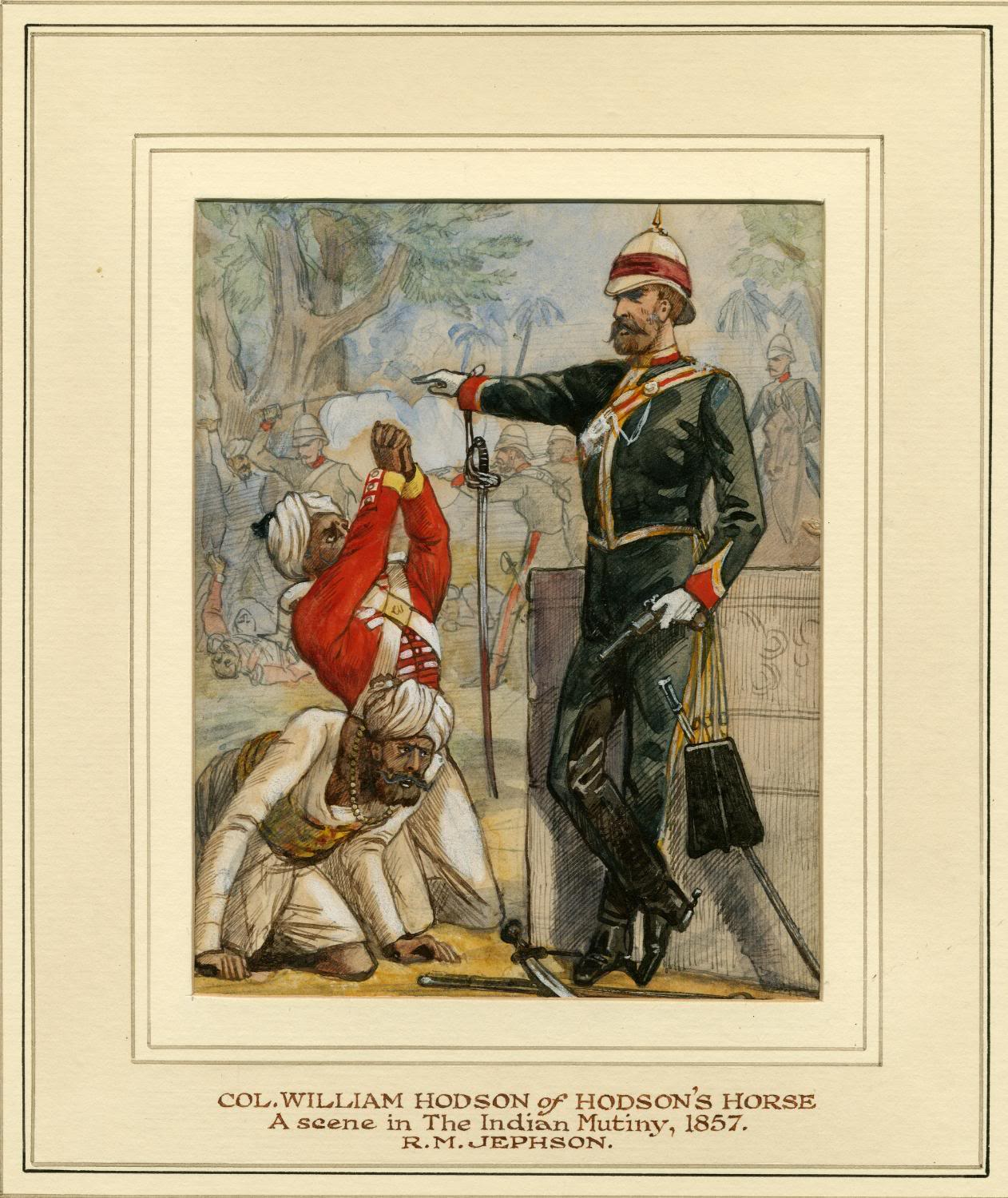 William Hodoson presented the heads of the two princes Mirza Mughal and Mirza Khizr Sultan.